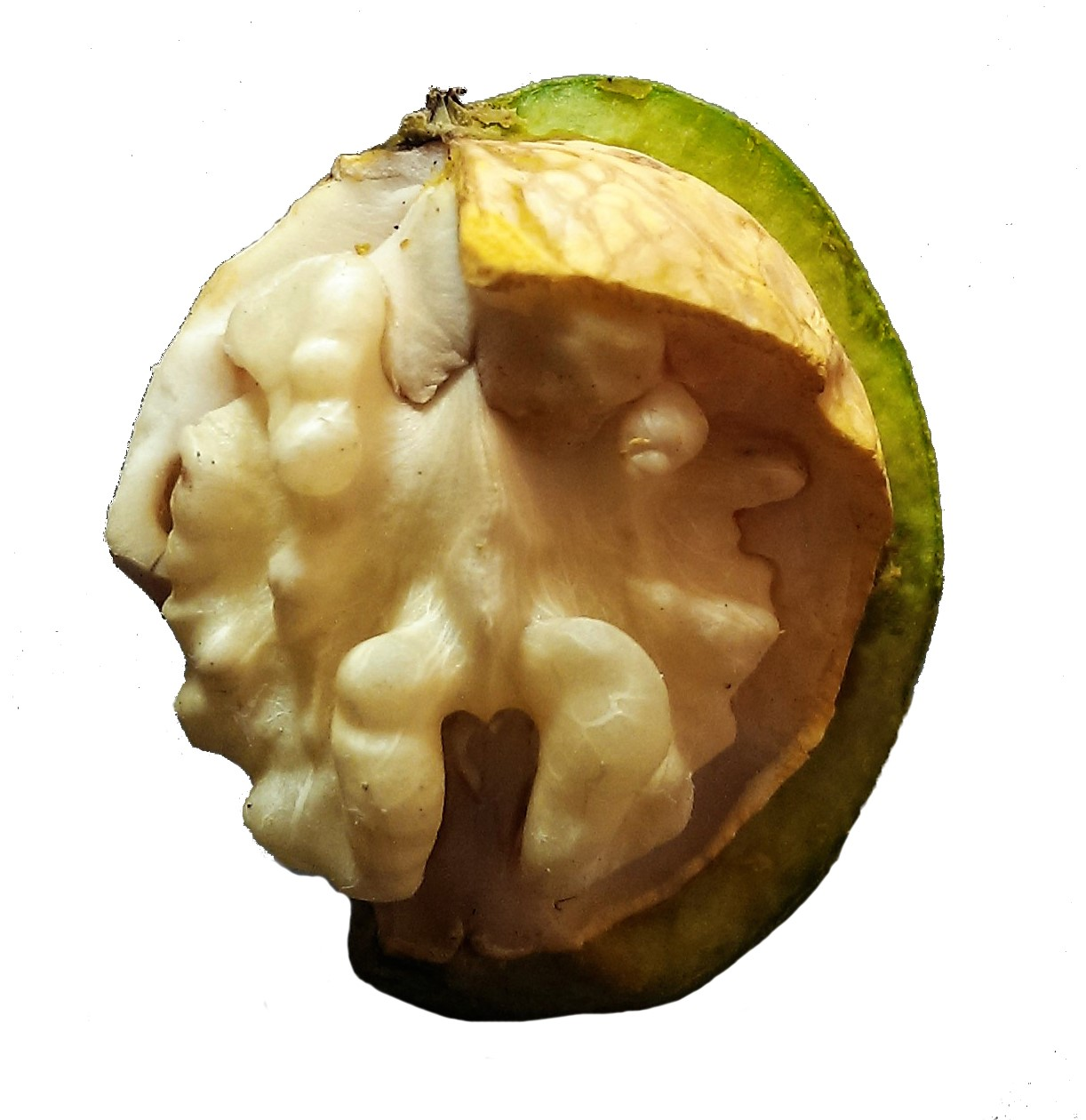 different layers in the walnut in the growing phase